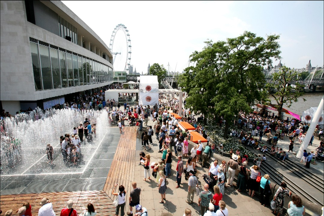 Outdoor events at The Overture, a free three-day festival to mark the reopening of Southbank Centre's Royal Festival Hall, attended by over a quarter of a million people. (Sheila Burnett)